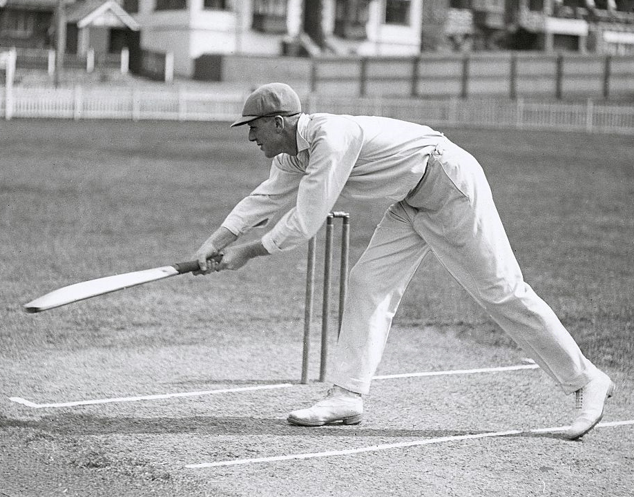 Cricketer Alan Kippax bats for NSW, 20 January 1930. THE AGE Picture by STAFF